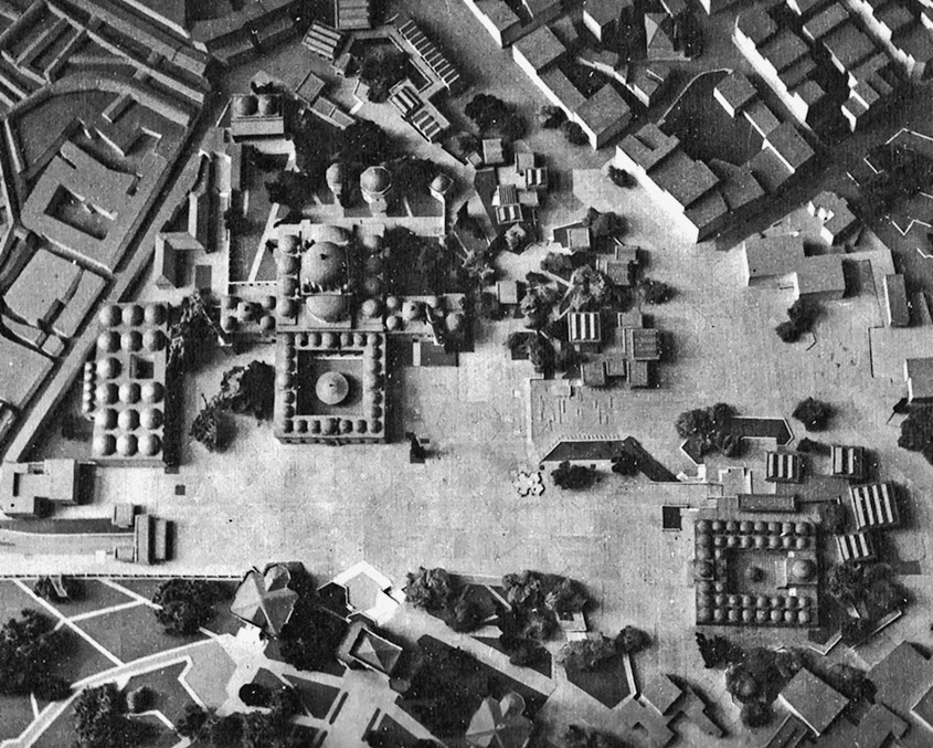 Beyazıt Square design by Turgut Cansever